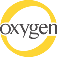 Former logo of the television channel Oxygen used from 2008 to 2014.